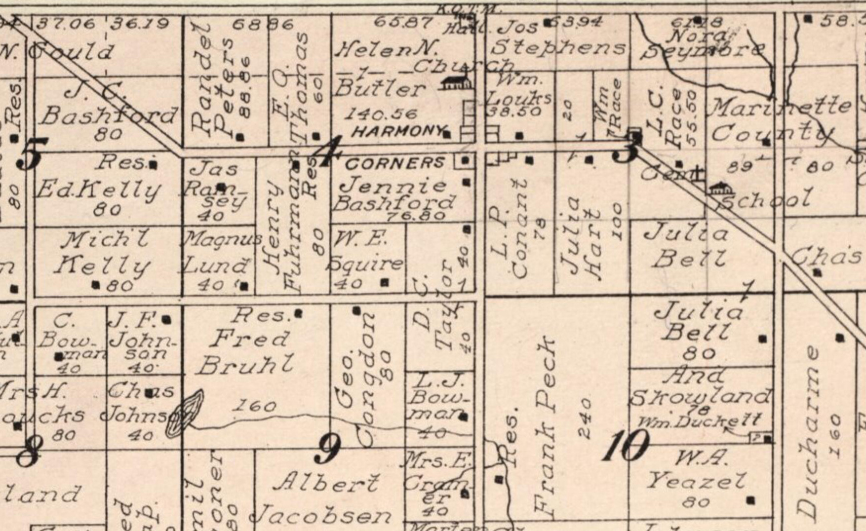 Map detail of Harmony, Wisconsin. From Standard Atlas of Marinette County Wisconsin Including a Plat Book of the Villages, Cities and Townships of the County. 1912. Chicago: Geo. A. Ogle & Co.